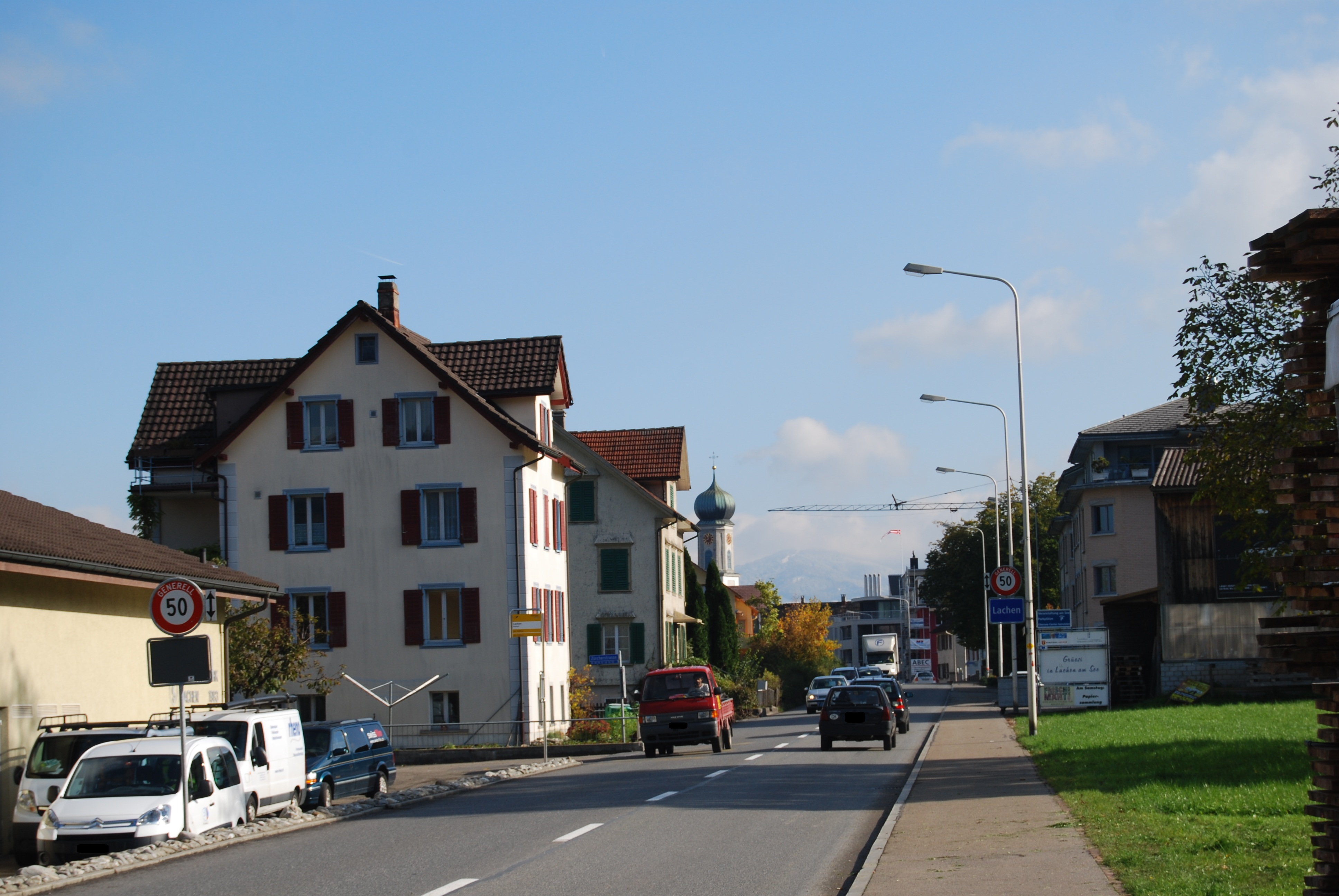 Lachen, canton of Schwyz, Switzerland